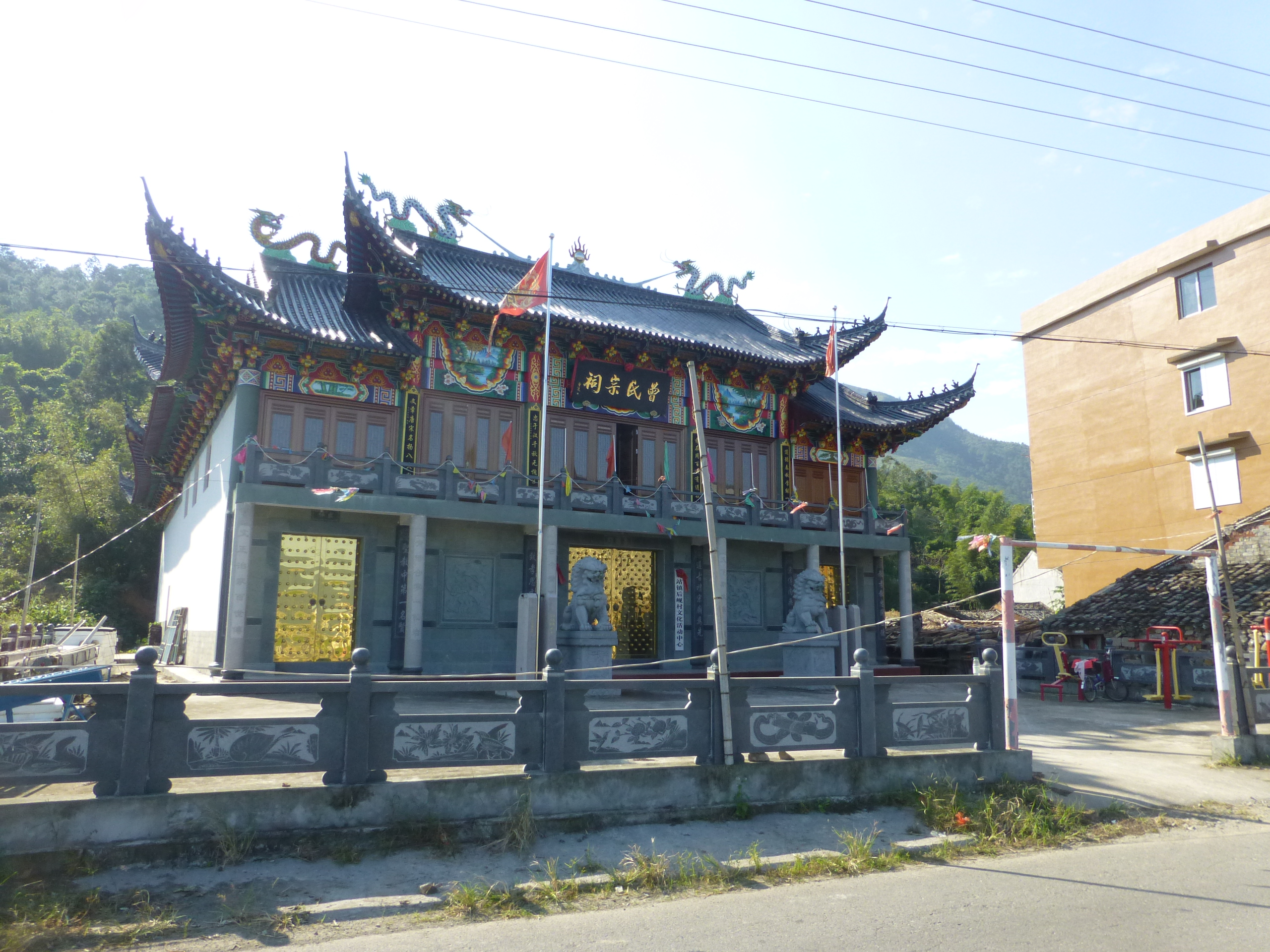 Zeng Family Ancestral Temple and Houxian Village Culture Events Center. Houxian Village, Mazhan Town (Cangnan County, Zhejiang, China.)